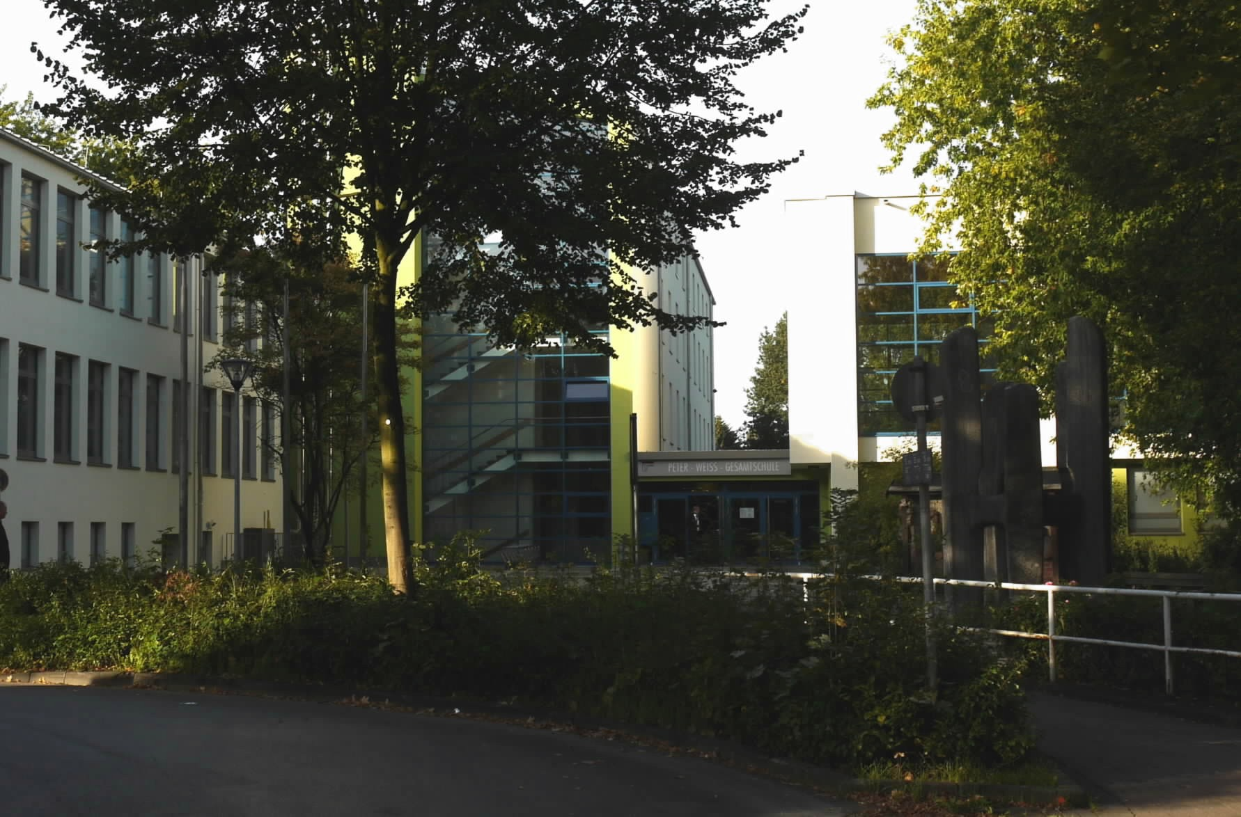 Peter Weiss high school Unna, Northrhine-Westphalia, Germany